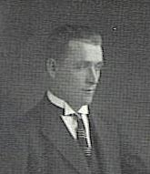 Viktor Herou, Swedish parliamentarian